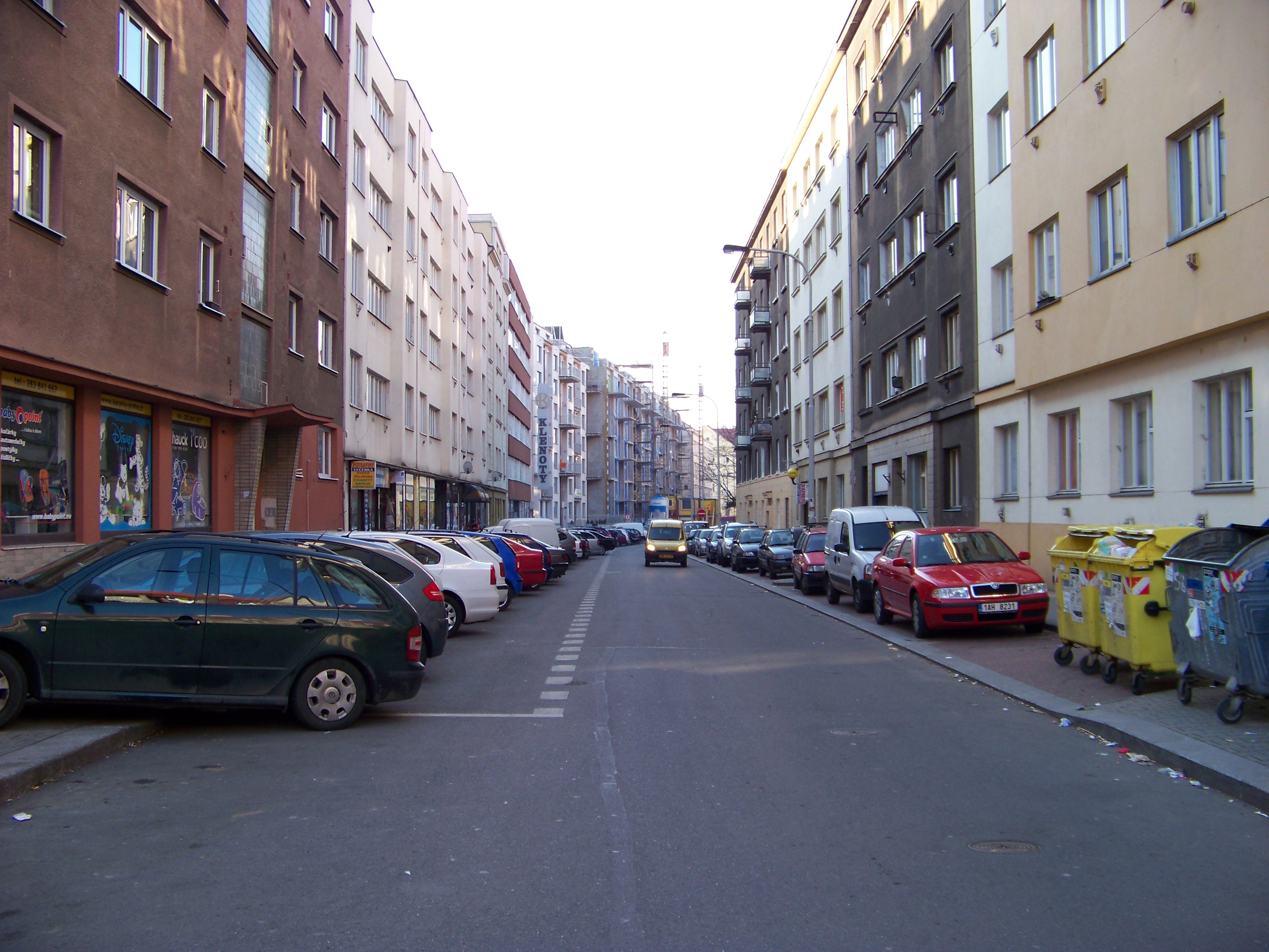 Prague-Libeň, the Czech Republic. U libeňského pivovaru street. - OpenStreetMap(Info)